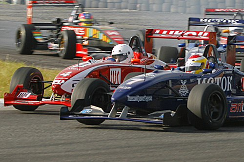 ArtLine team competing Lukoil team, Raceway ADM. Ivan Samarin in the blue car, Viktor Shaytar in the black one.